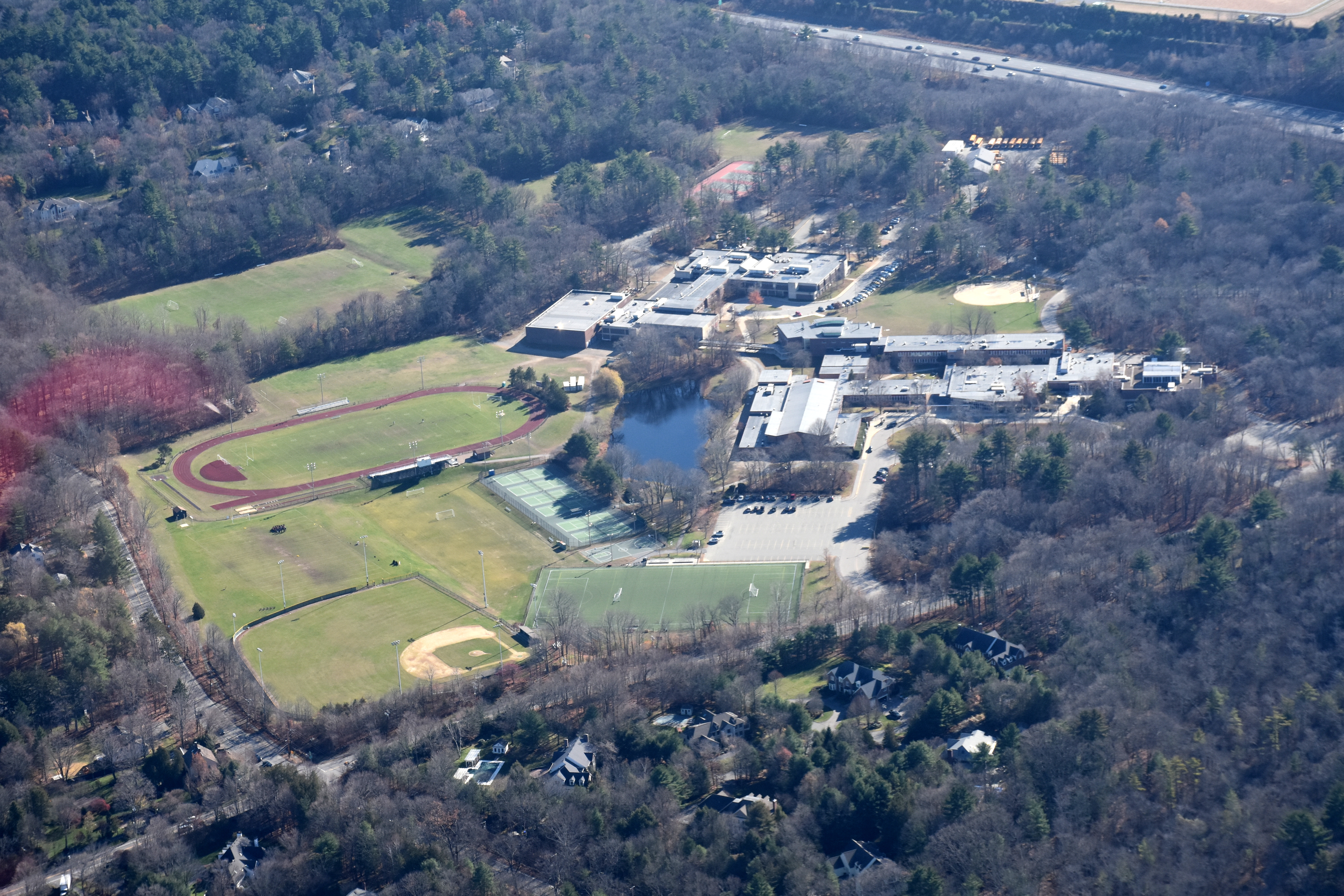 Aerial view of Weston High School in Weston, Massachusetts